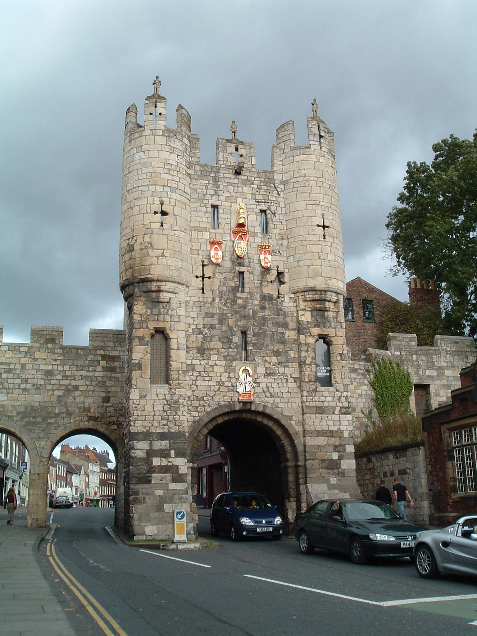 The southern entrance to York, Micklegate Bar. This also once possessed a barbican. The southern entrance to York, Micklegate Bar.